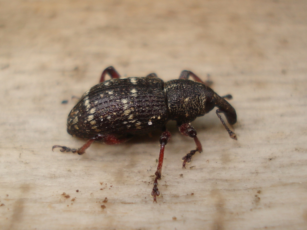 Pine weevil (Hylobius pinastri)